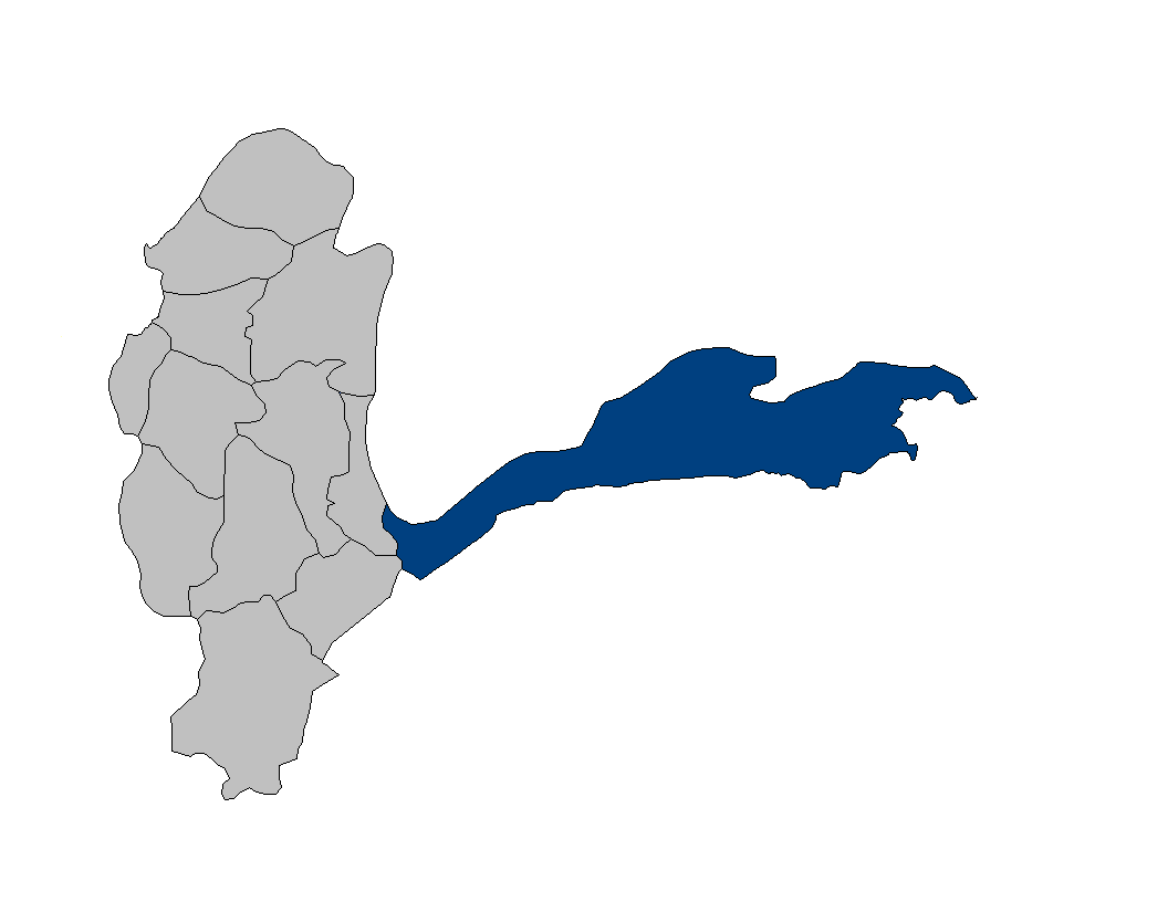 Location map for the Wakhan District of Badakhshan Province, Afghanistan. Original map source: Image:Badakhshan districts.png